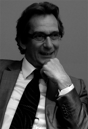 Marc de la Brassinne, is born the 29 october in 1953 at castle "du Thier del Borne" from Saint-Hubert (Belgium). He is belgian lawyer.